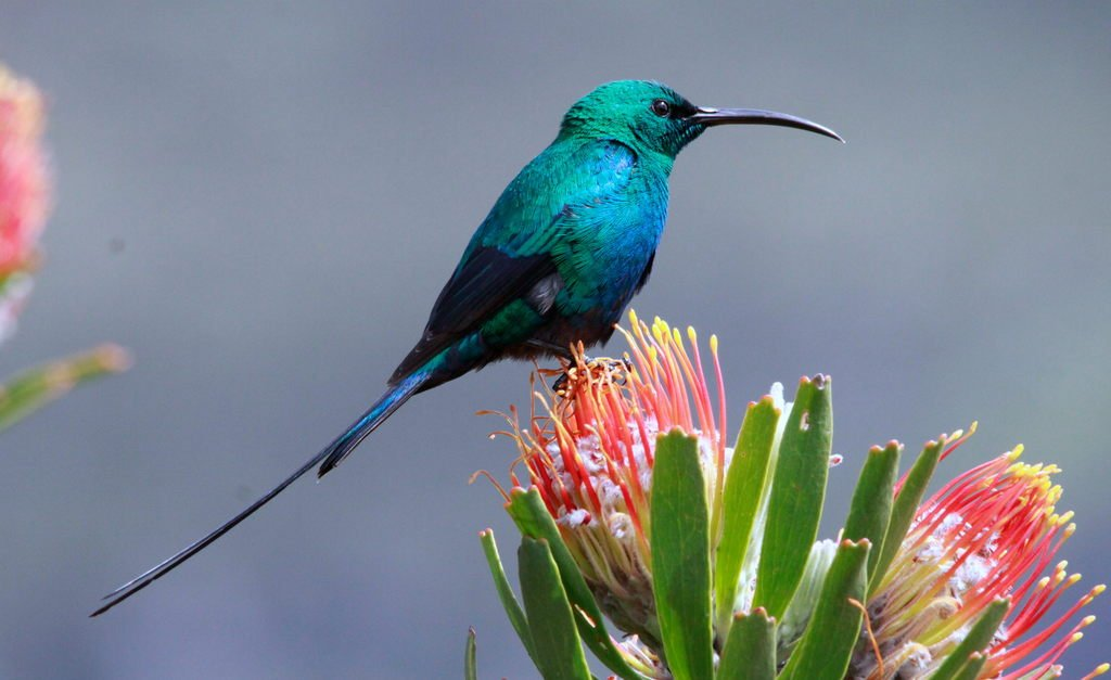 Malachite Sunbird, Nectarinia famosa, male at Kirstenbosch